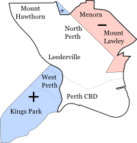 Boundaries of the Electoral district of Perth, a seat in the Western Australian Legislative Assembly, in 2005, overlaid with the boundaries from the 2007 redistribution which will take effect in 2009.